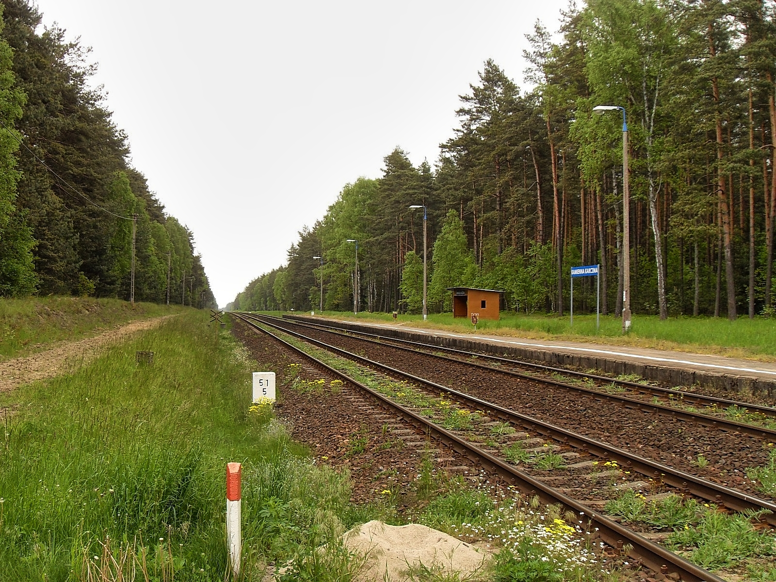 Railway station Kamienna Karczma